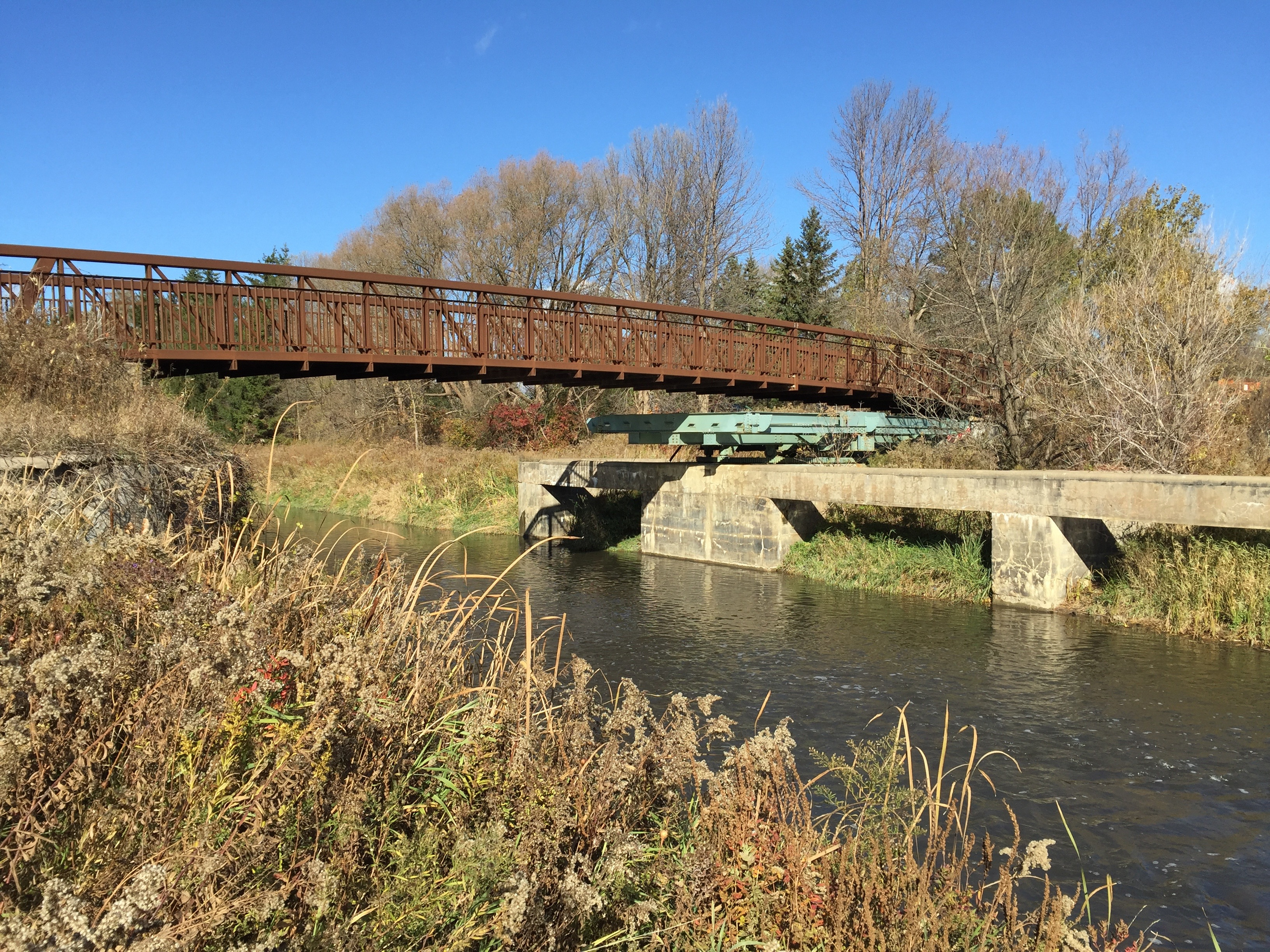 The concrete abutments and green-painted gearing system is all that remains of a hand-cranked pony-truss swing bridge that carried Green Lane over the Holland River Division (Newmarket Canal). It was widely referred to as the Kelly Bridge, due to the Kelly family that owned farmland immediately south of the bridge. Used for almost a century from 1911, Green Lane was realigned a few meters south (just behind the photographer) as part of a four-lane widening plan that opened in February 2002. The original bridge was mechanically unsound and removed in 2004, the bridge seen here is a new structure recently installed as part of a recreational trail following the old canal. The image was taken in October after a stretch of good weather, and the rather high water level suggests complains about there being too little water flow may have been overblown.